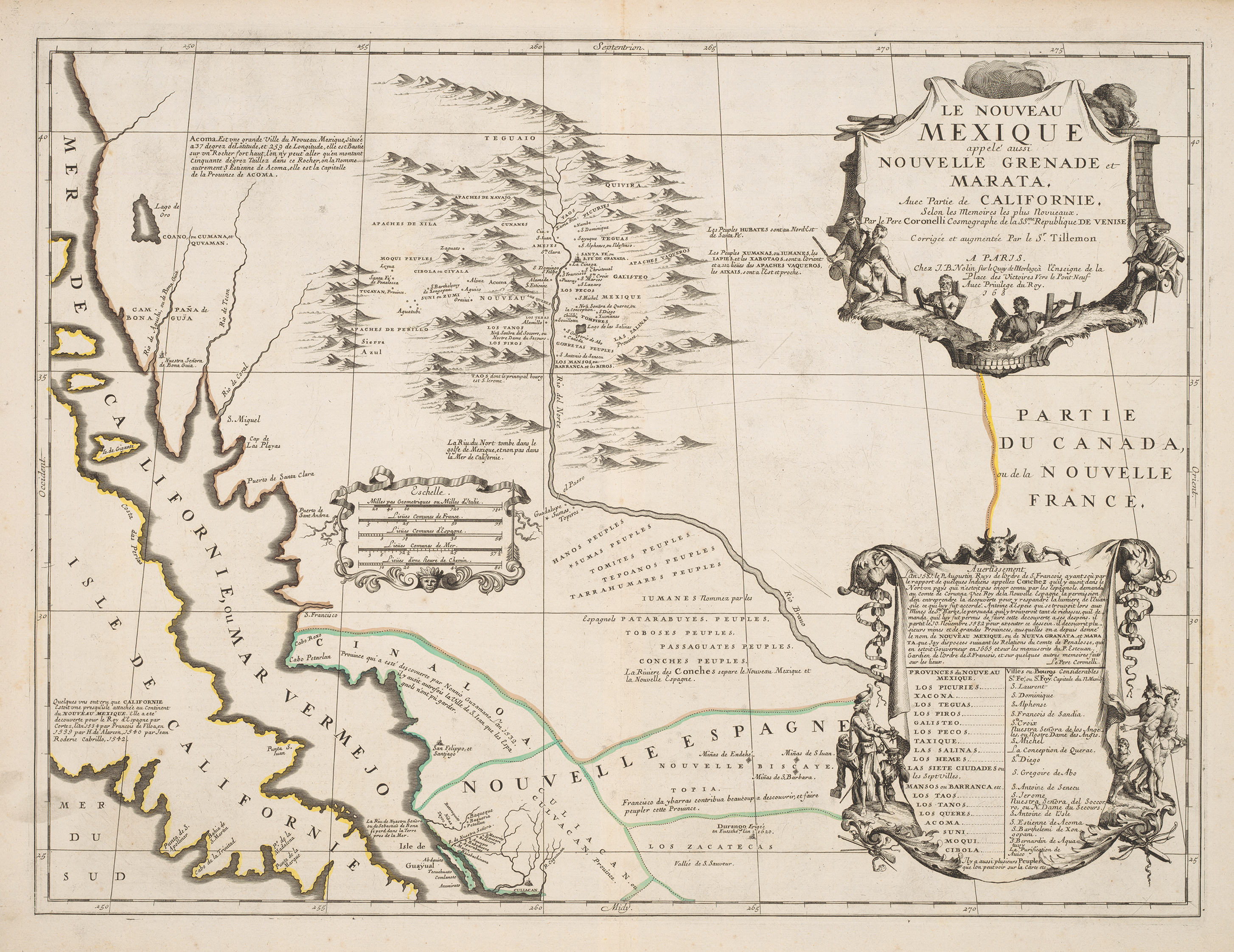 While the famed Venetian cartographer and Minorite friar Vincenzo Coronelli spent time in France as cartographer and globe-maker to Louis XIV, he was able to compile valuable geographic knowledge about New Spain's interior provinces. One of his most important sources was a manuscript map drawn by Abbé Claude Bernou based upon information from a former governor of New Mexico (1661-1664), the self-proclaimed Comte, don Diego Dionisio de Peñalosa Briceño y Berdugo (1621-1687). Peñalosa had been banished by the Inquisition for alleged misdeeds and had traveled to London and by 1678 was in France, where he offered his services to the French. Tillemon's and Coronelli's maps as published by Jean-Baptiste Nolin not only spread knowledge of many place names for the first time, such as "el Passo" (modern Juarez, Mexico), they also showed that the "Rio del Norte" and "Rio Bravo" were one and the same. One particularly interesting toponym near the "Moqui Peuples" (Hopi people) is the town or village of "Santa Fé de Peñalossa" – apparently a fabrication.